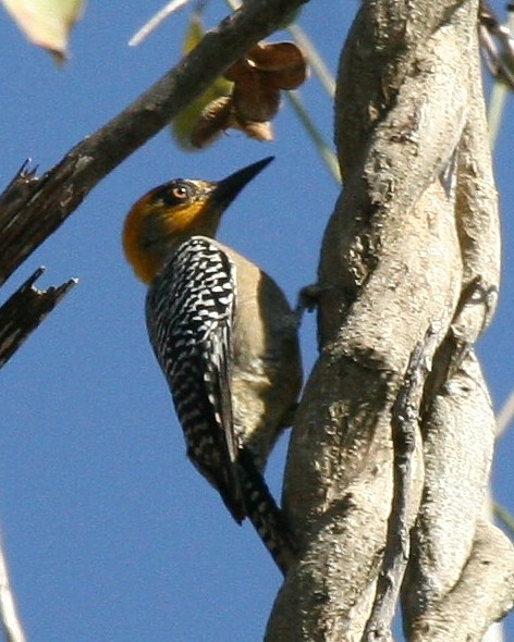 Cropped version of Golden-cheeked Woodpecker.jpg (Melanerpes chrysogenys)